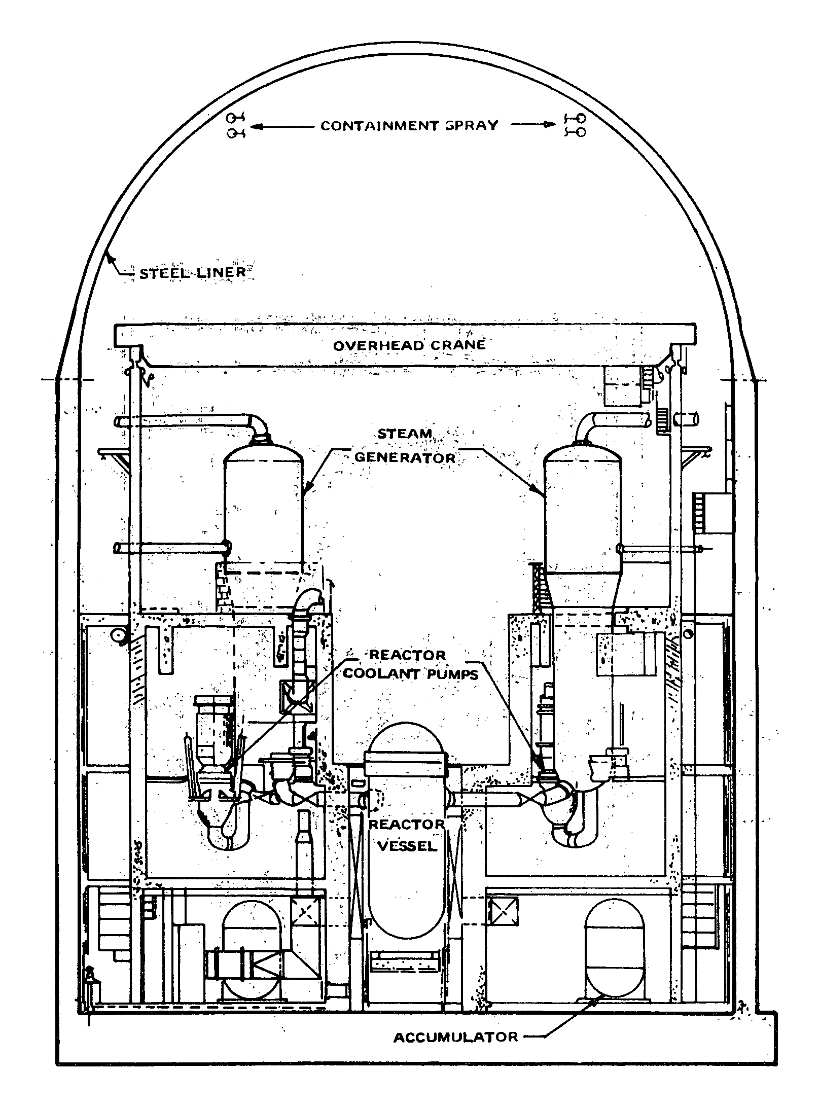 Reactor Safety Study, WASH-1400 - Figure 3-7. Typical PWR Containment.